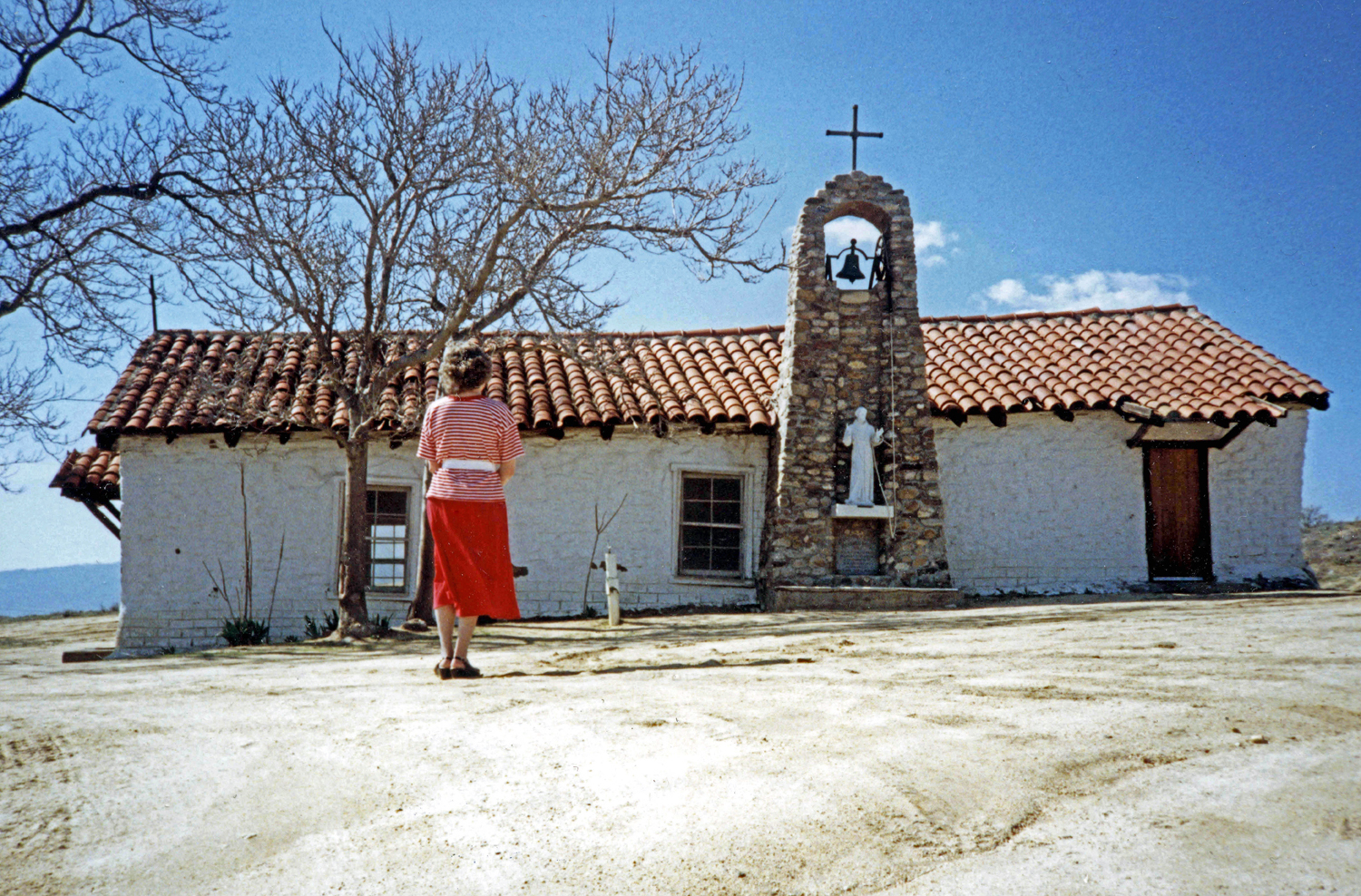 St Francis Mission Chapel Warner Springs Southern California built circa 1830